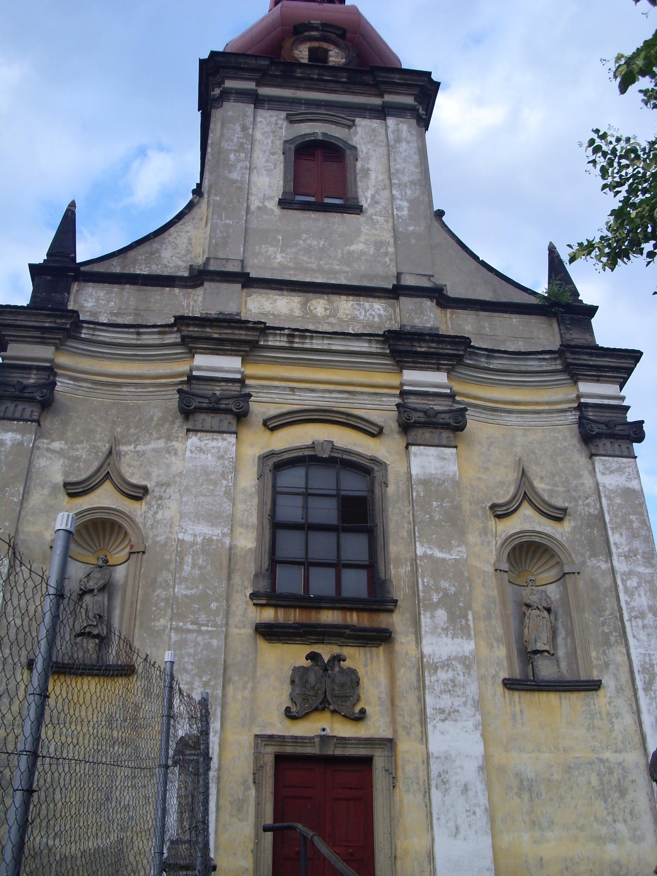 Church of Saints Petr and Paul in Jeníkov, Teplice District, Czech Republic